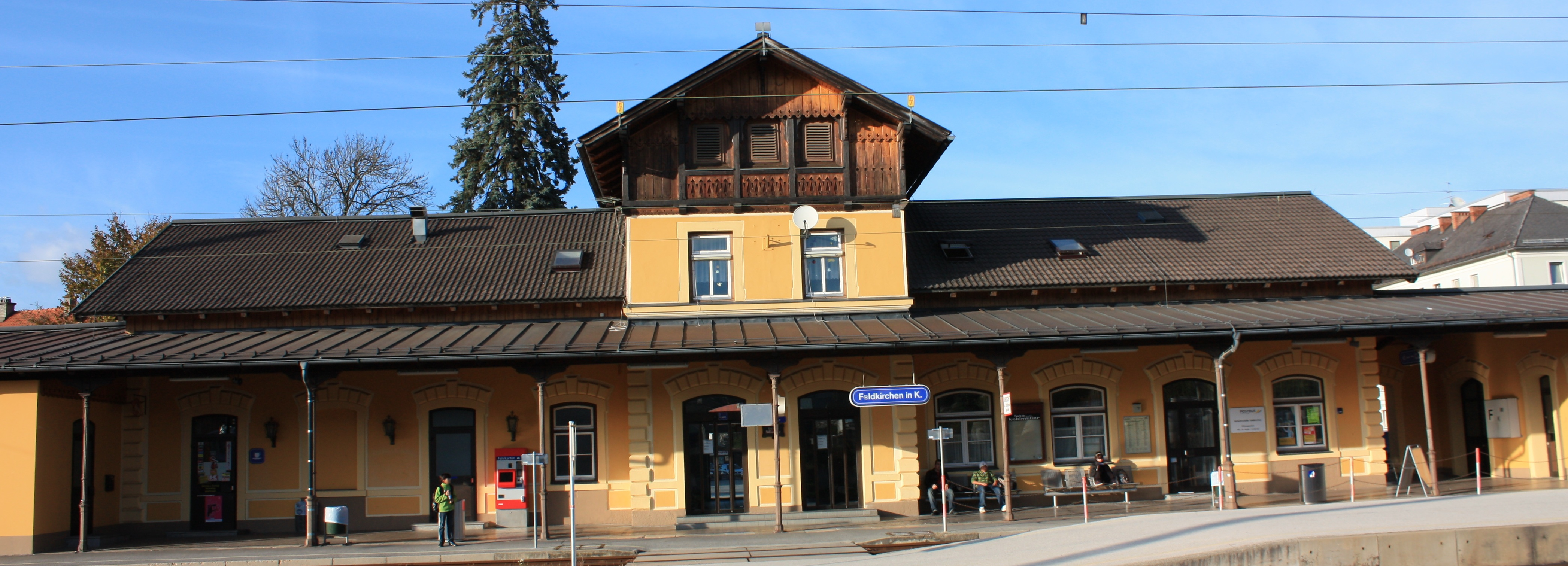 Train station Locality: Bahnhofstraße Community:Feldkirchen in Kärnten